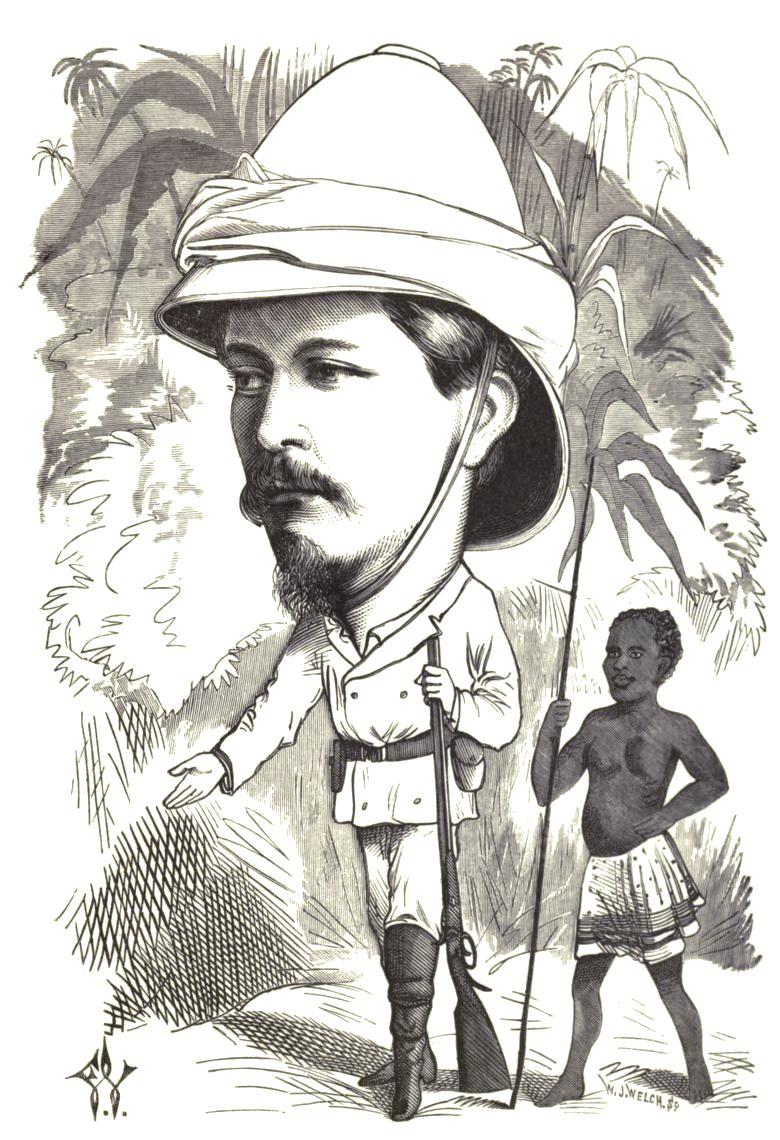 H. M. Stanley. He found Livingstone.from Cartoon portraits and biographical sketches of men of the day